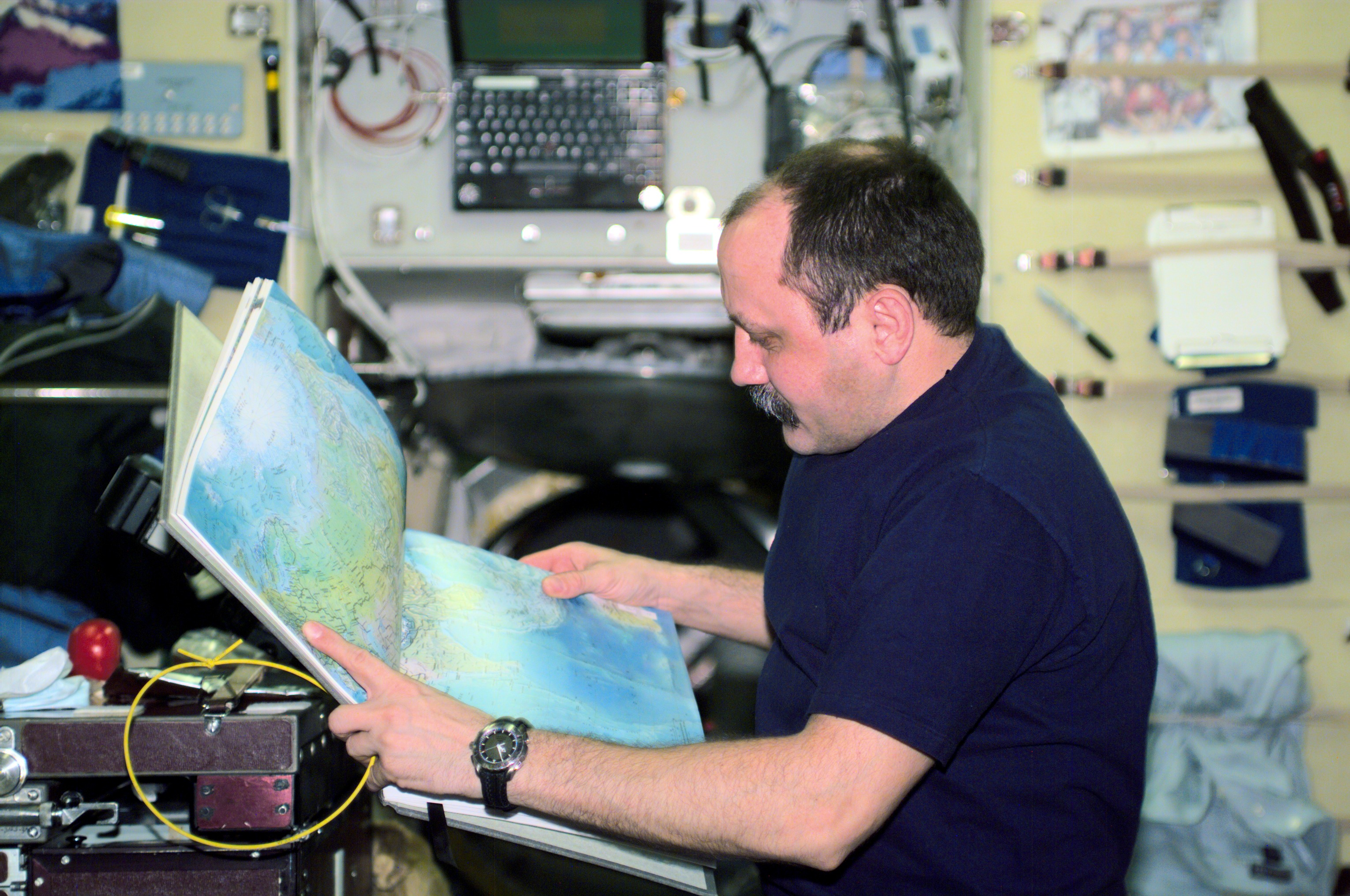 Yury V. Usachev of Rosaviakosmos, Expedition Two mission commander, looks over an atlas in the Zvezda Service Module. The image was taken with a digital still camera.